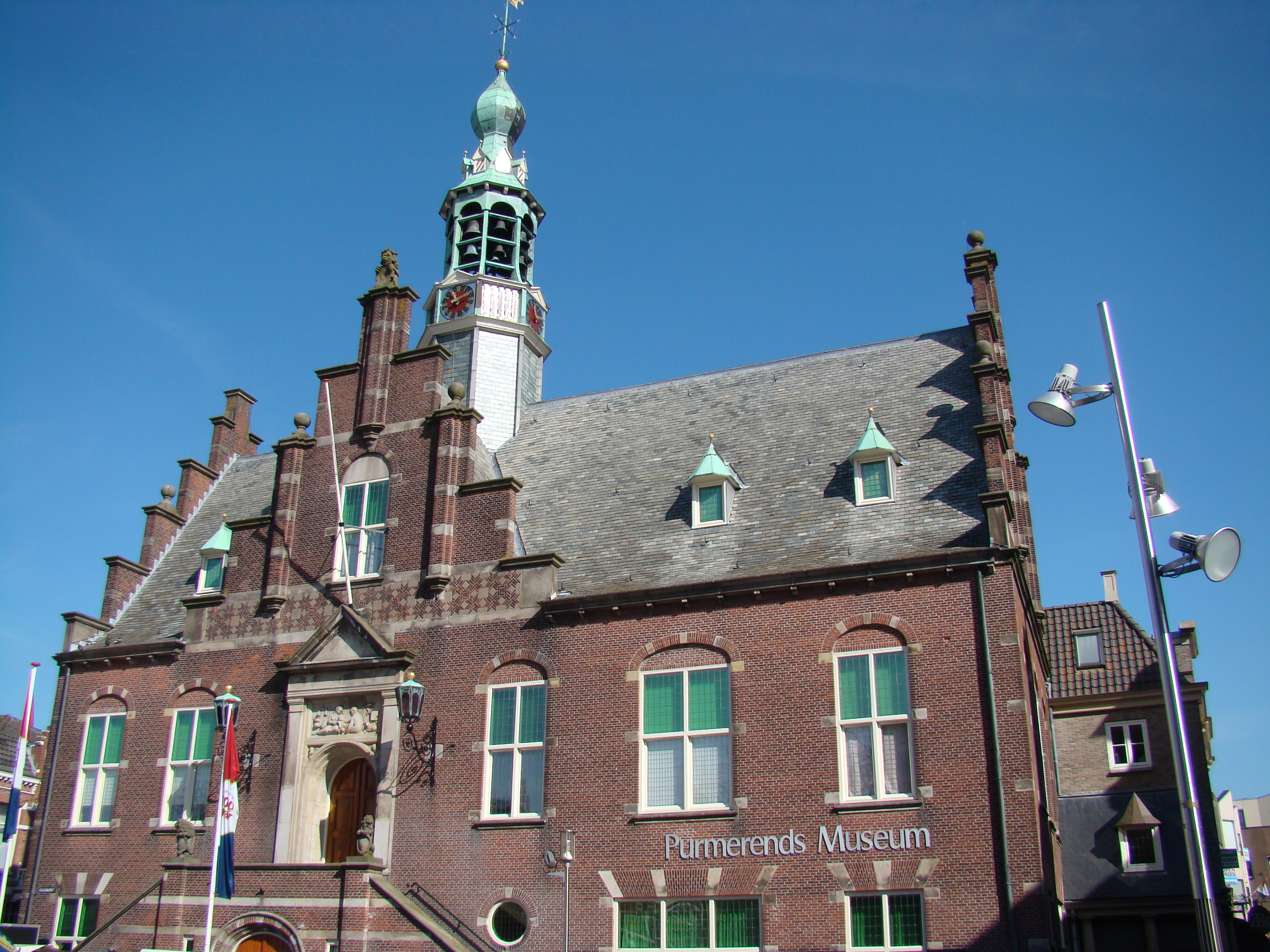 Impressions of the city Purmerend, Netherlands